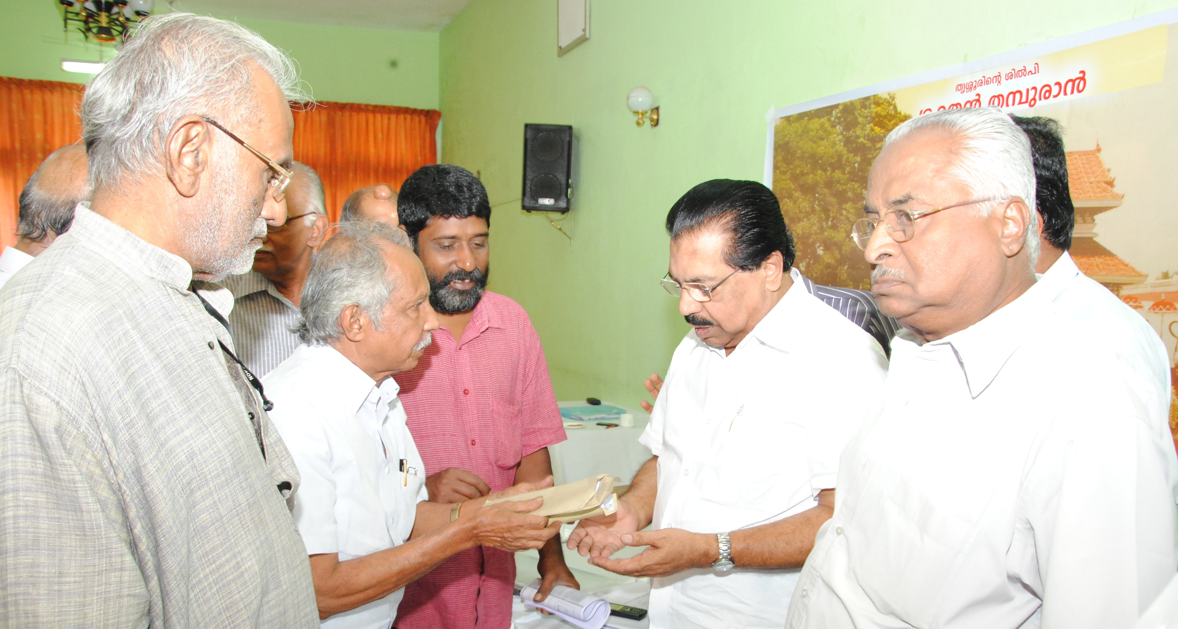 Prof.K.B Unnithan is submitting a memorandum to P. C. Chacko M.P for Sree Rama Varma Music School.